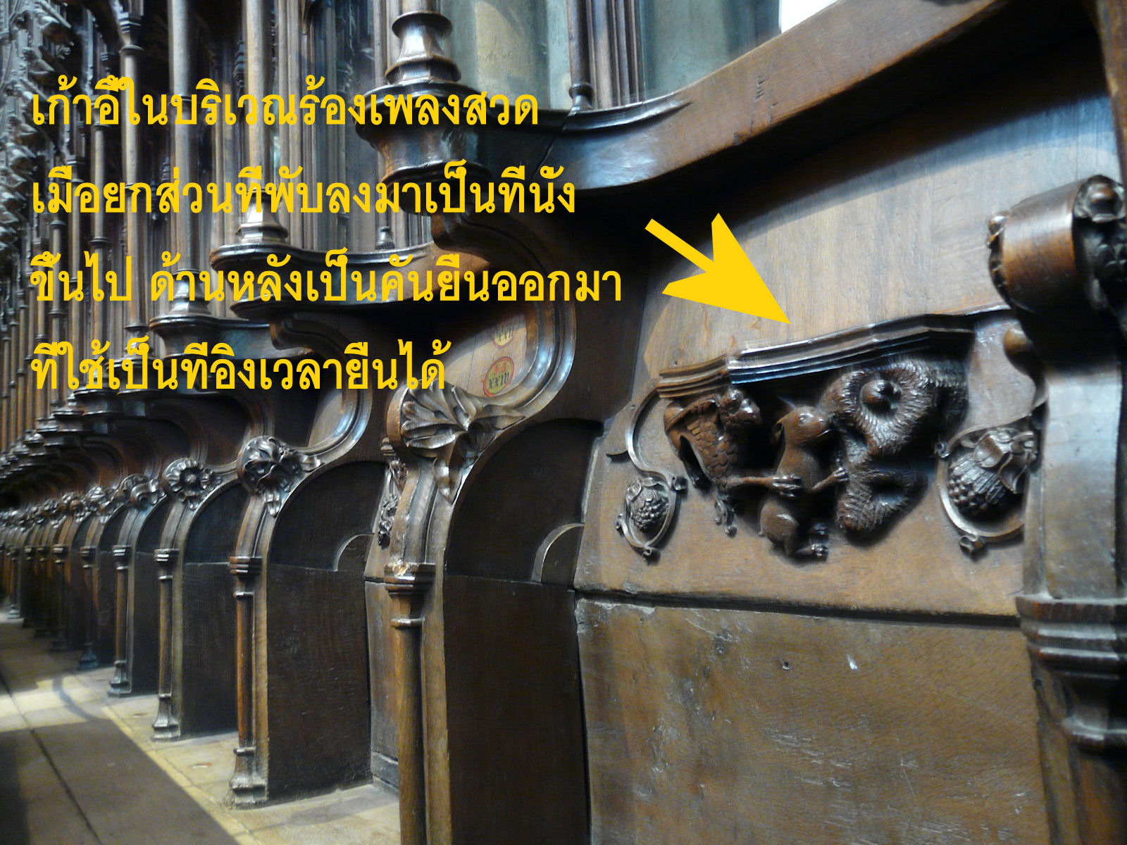 Misericord, Ripon Cathedral, Ripon, England